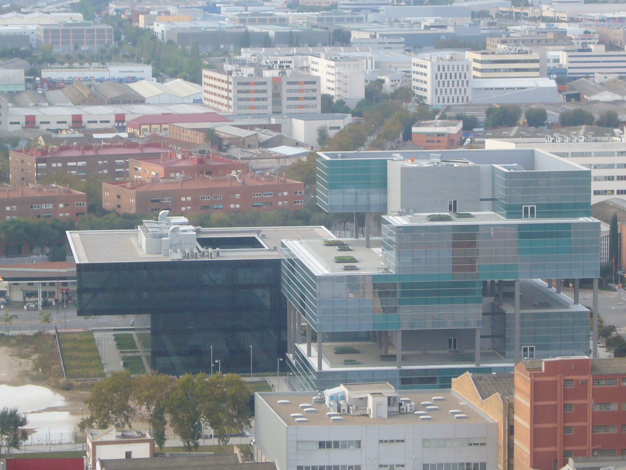 Districte 38 (a 2011 building by Arata Isozaki) located at Passeig de la Zona Franca, 14-54 (La Marina del Prat Vermell, Barcelona). Seen from the top of Montjuïc cemetery.